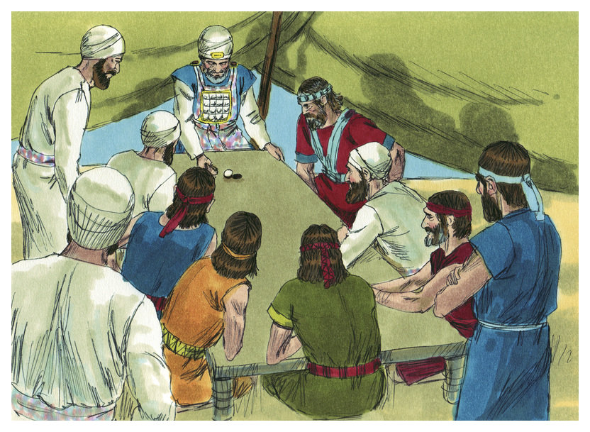 Biblical illustration of Book of Joshua Chapter 18